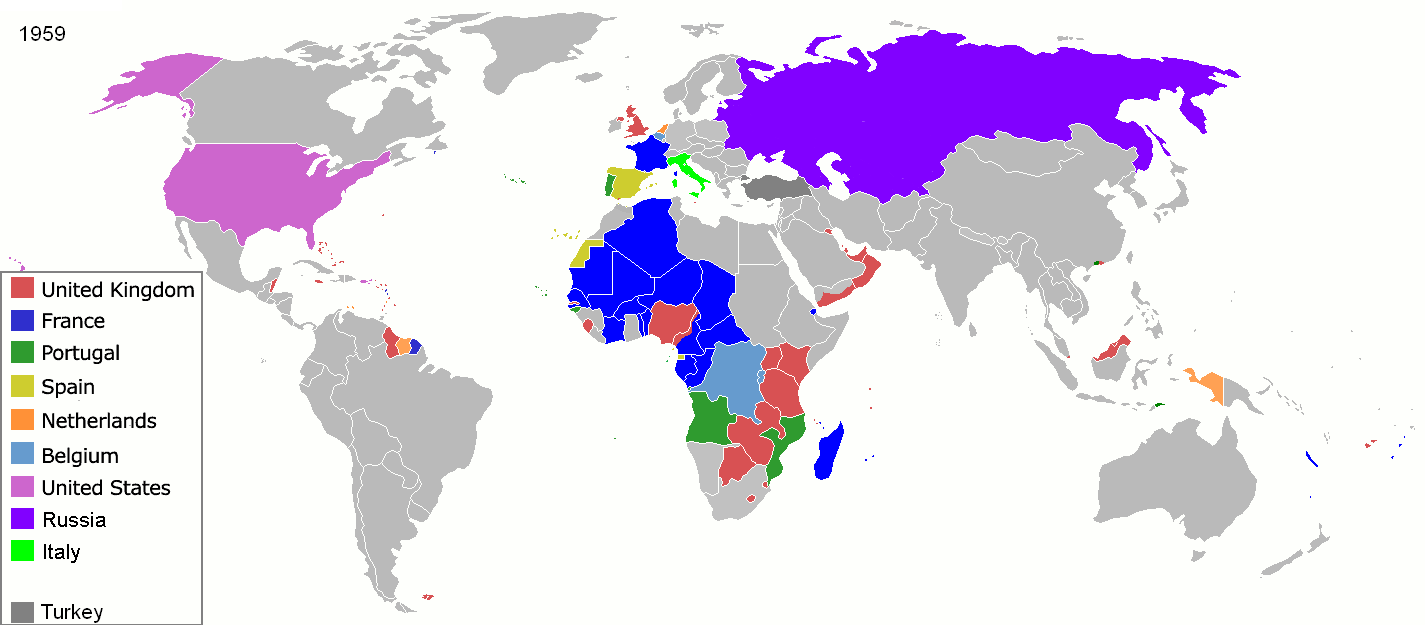 Map of major world powers by year, derived from public domain animated map on wikipedia. Maps of world history BC 2000 · 1000 · 500 · 400 · 323 · 300 · 200 · 100 · 50 AD 1 · 50 · 100 · 200 · 250 · 300 · 400 · 500 · 700 · 750 · 820 · 900 · 1556 · 1700 · 1859 Maps of colonization history 1492 · 1550 · 1660 · 1754 · 1800 · 1812 · 1822 · 1885 · 1898 · 1914 · 1920 · 1936 · 1938 · 1945 · 1959 · 1974 · 1975 · 2007 Animated Map Maps of Cold War 1959 · 1980 · see also: Eastern Hemisphere only maps template (1300BC-1500AD) (this template: · view · discuss ) As the orriginal licence of the animation was Public Domain, this image which has been derived from it is too: This work has been released into the public domain by its author, Andrei nacu. This applies worldwide.In some countries this may not be legally possible; if so:Andrei nacu grants anyone the right to use this work for any purpose, without any conditions, unless such conditions are required by law.